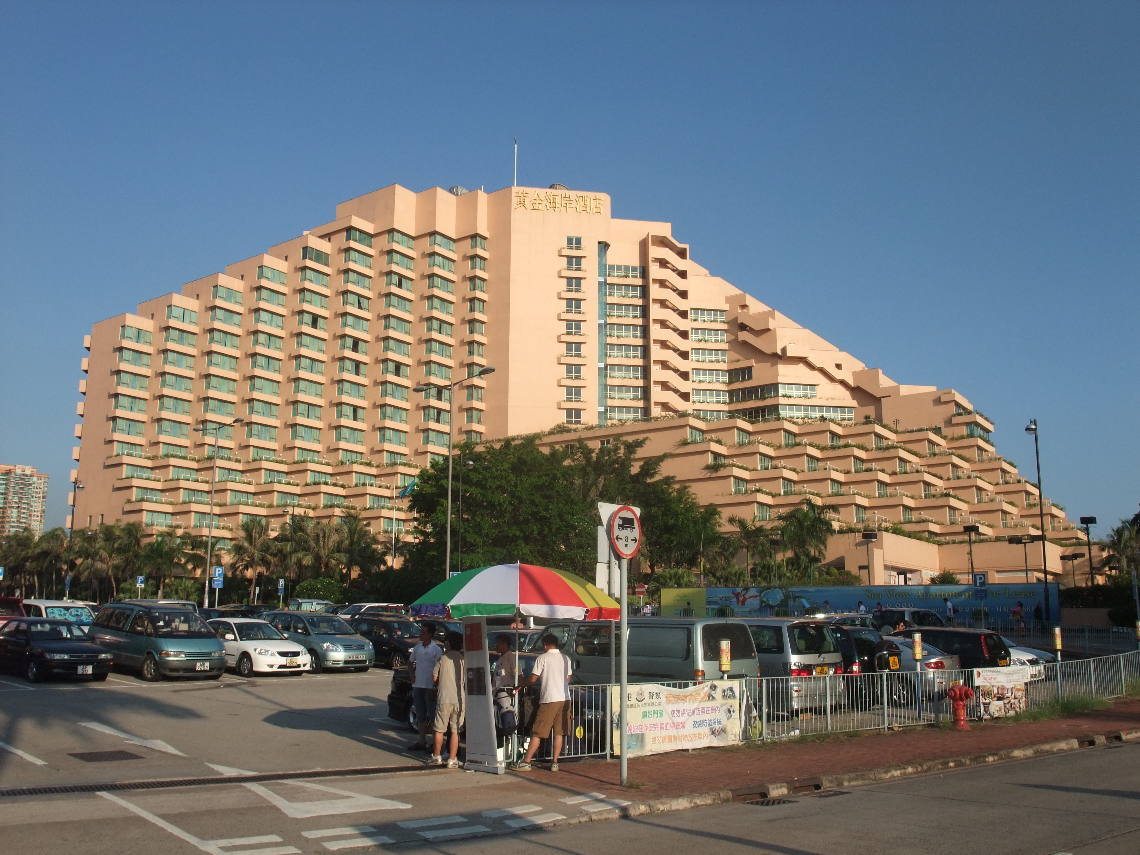 Photo of Hong Kong Gold Coast Hotel